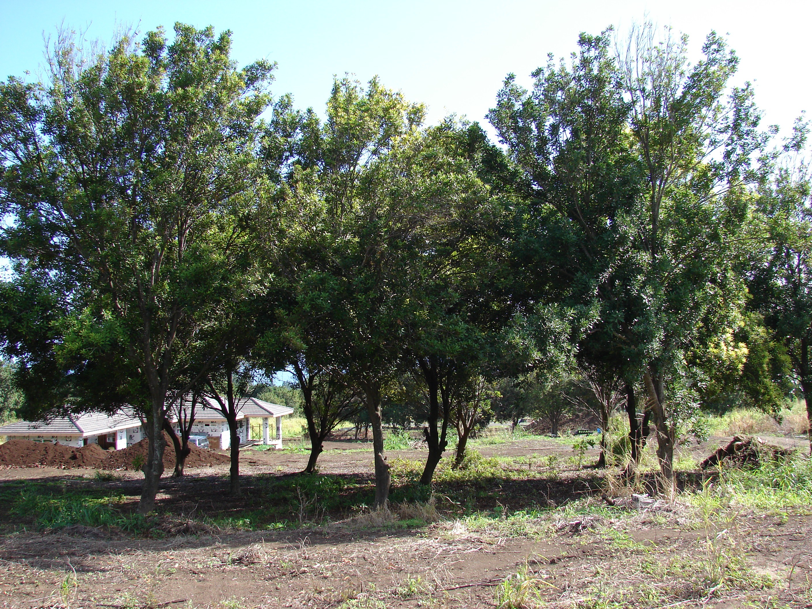 Macadamia integrifolia (habit). Location: Maui, Old macadamia nut orchards Waiehu